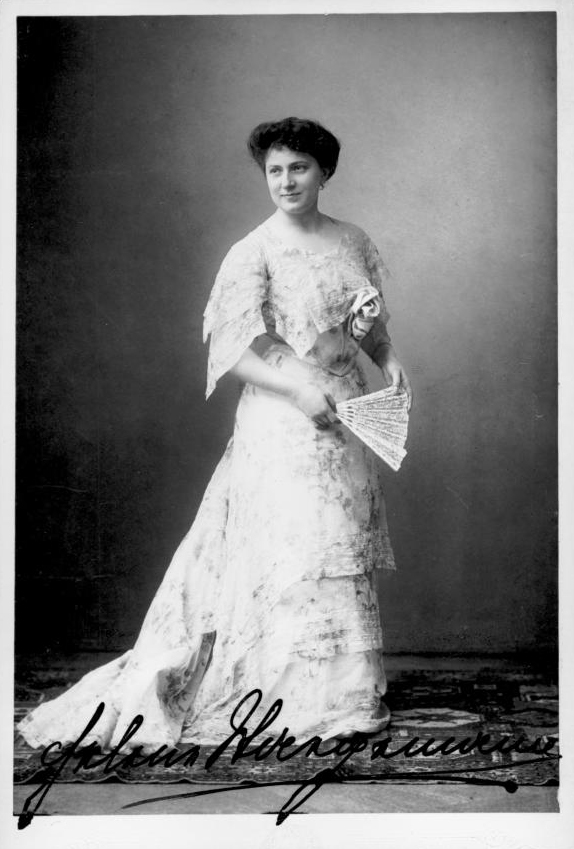 German chamber singer Helene Staegemann (1877-1923).